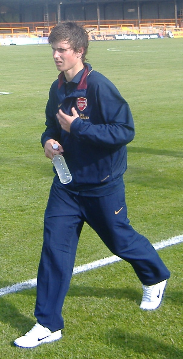 Norwegian football player Håvard Nordtveit.